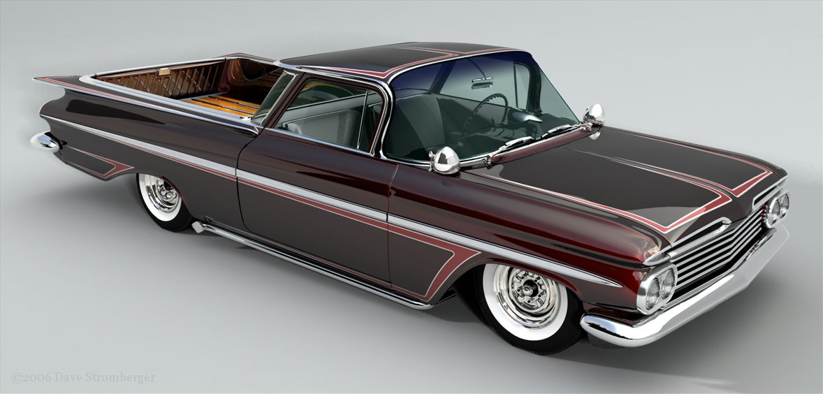 Photo realistic rendering from a 3D model created by David R. Stromberger.